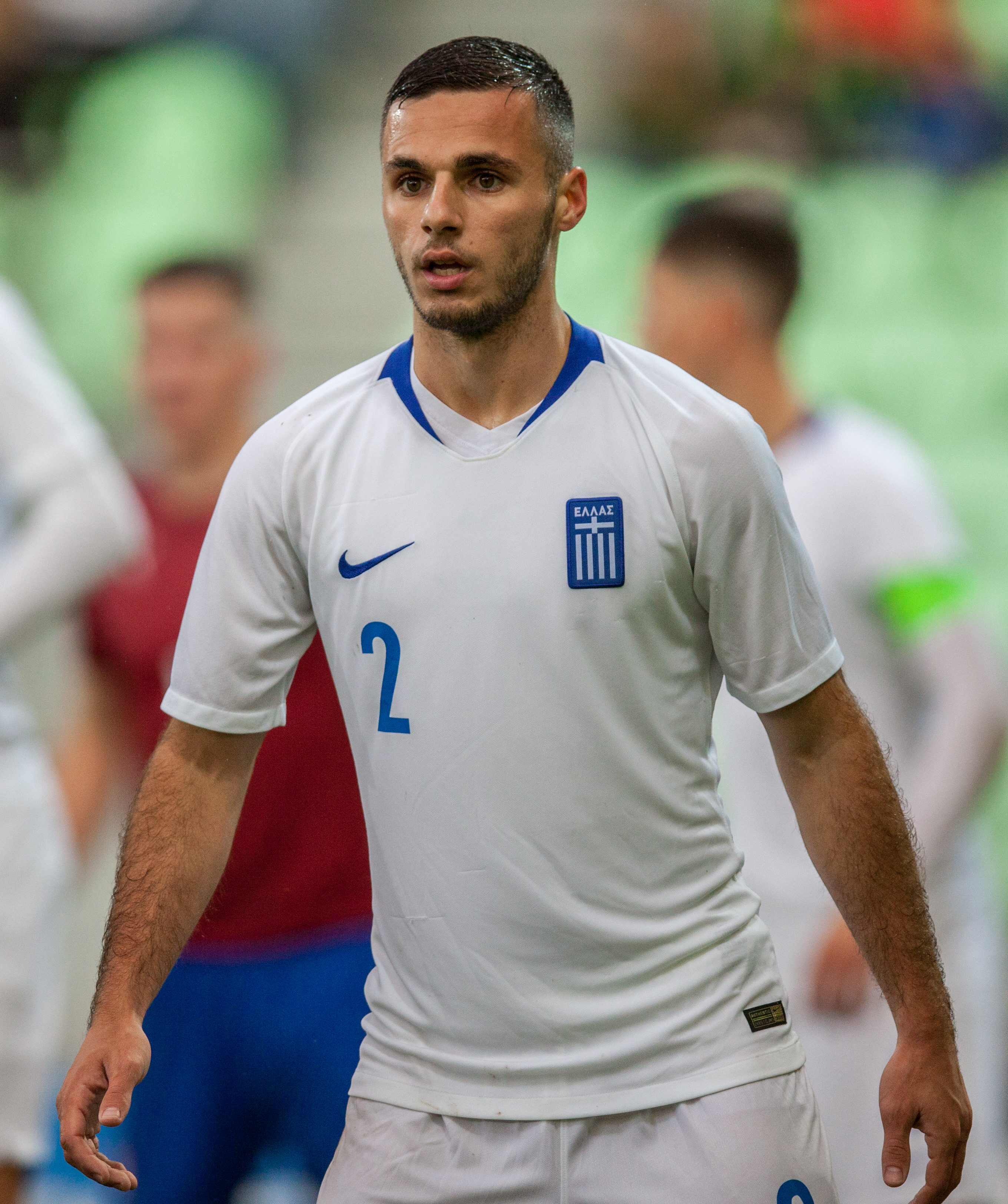 Spyros Natsos in an internatinoal association football match of European Under-21 Championship Qualifying Round between the Czech Republic and Greece, Městský stadion Karviná, Karviná District, Moravian-Silesian Region, Czechia Personality rights warningAlthough this work is freely licensed or in the public domain, the person(s) shown may have rights that legally restrict certain re-uses unless those depicted consent to such uses. In these cases, a model release or other evidence of consent could protect you from infringement claims.